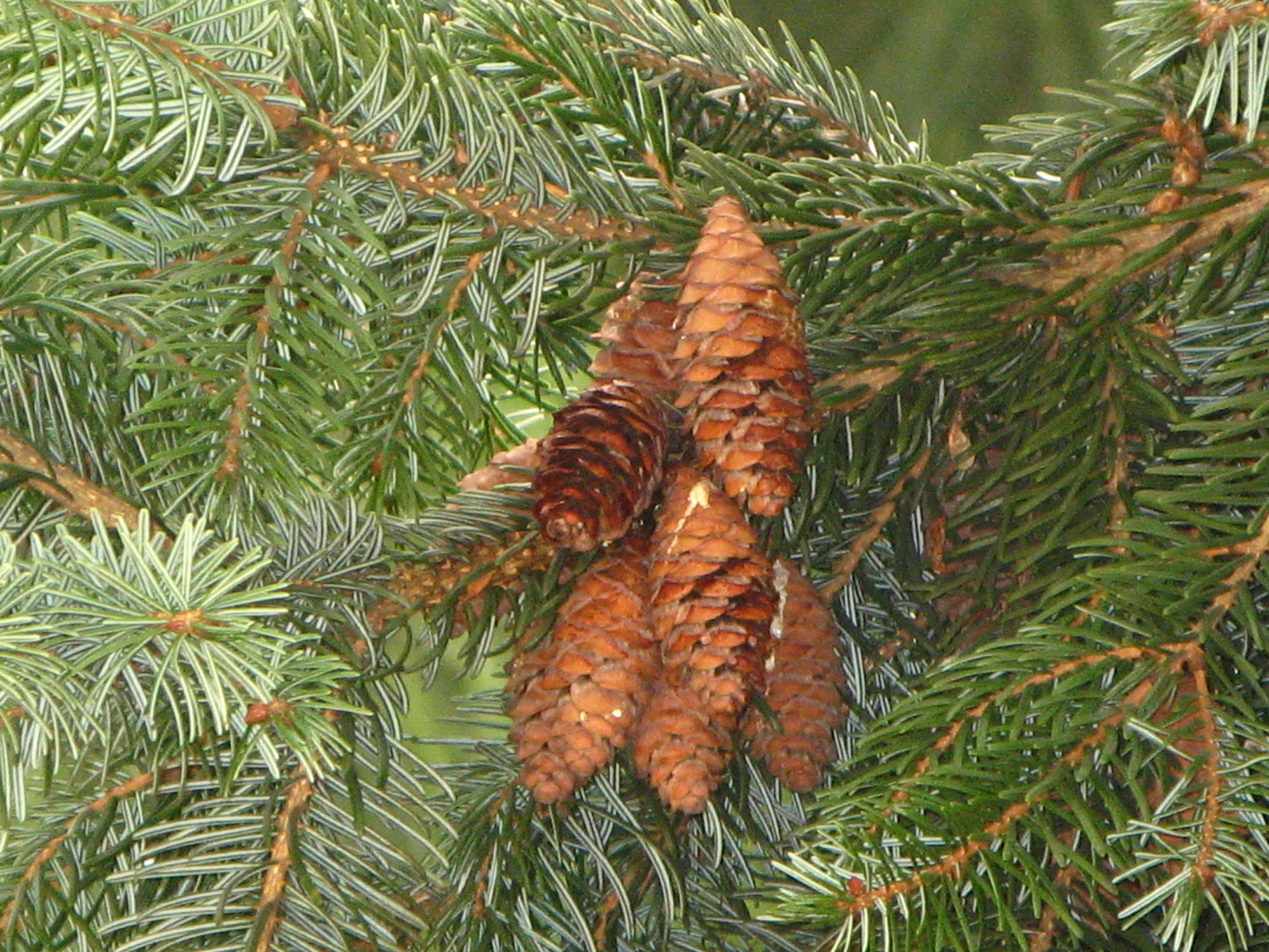 Picea omorika cone, Marki, Poland